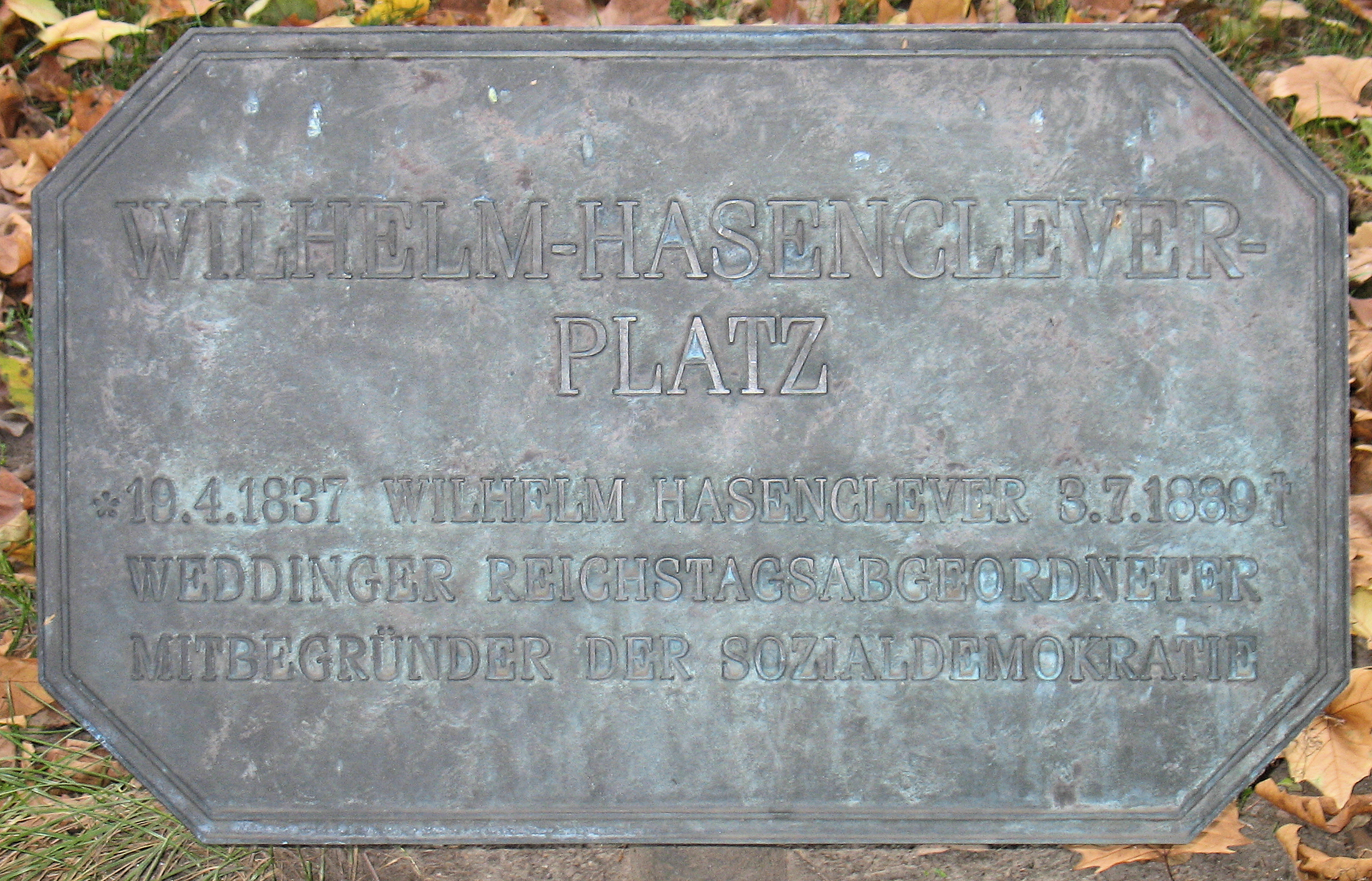 Memorial plaque, Wilhelm Hasenclever, Wilhelm-Hasenclever-Platz, Berlin-Wedding, Germany Koordinate:52°33′13″N 13°21′32″E / 52.55361°N 13.35889°E